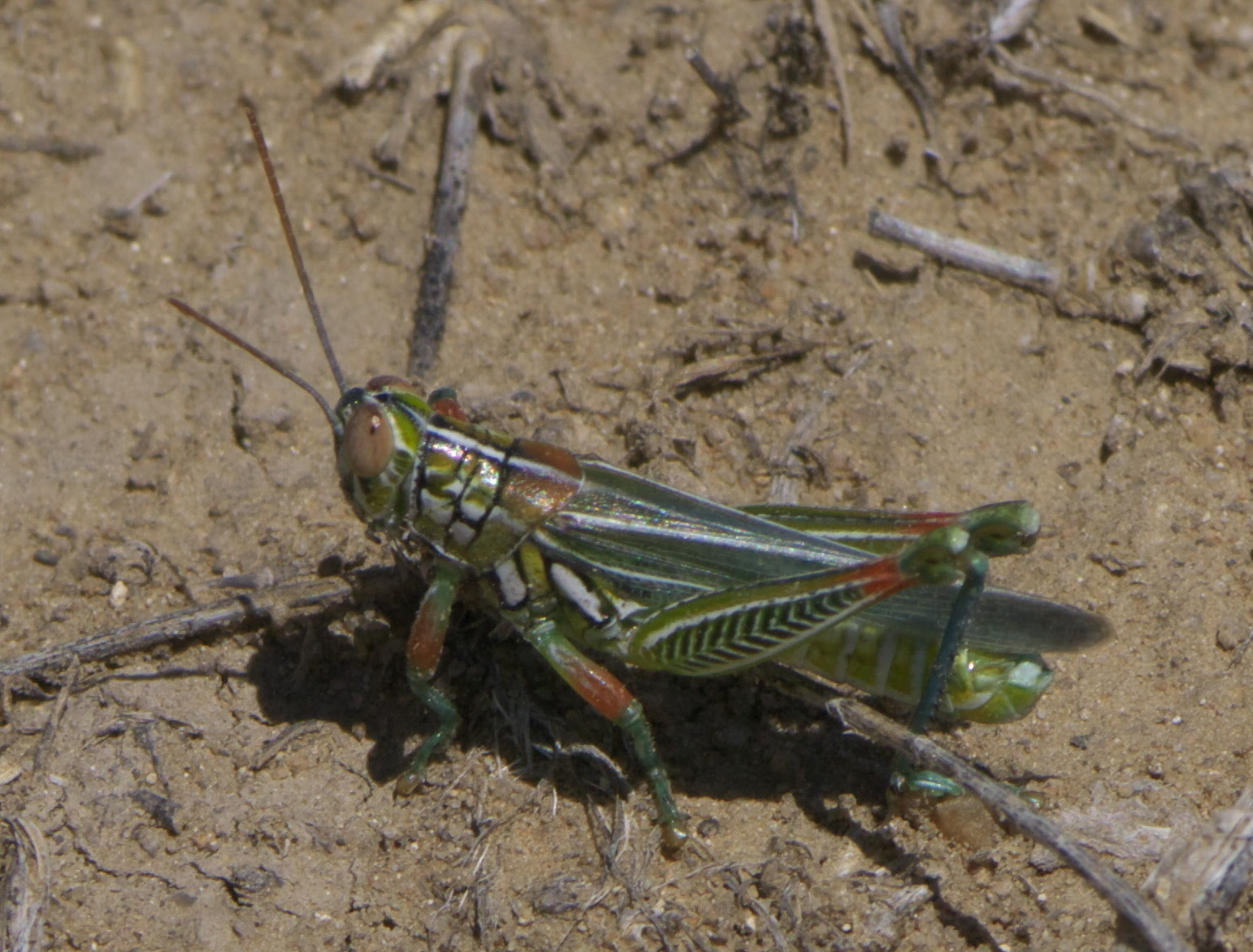 Hesperotettix viridis, Subfamily: Spur-throated Grasshoppers, ID Confidence: 87